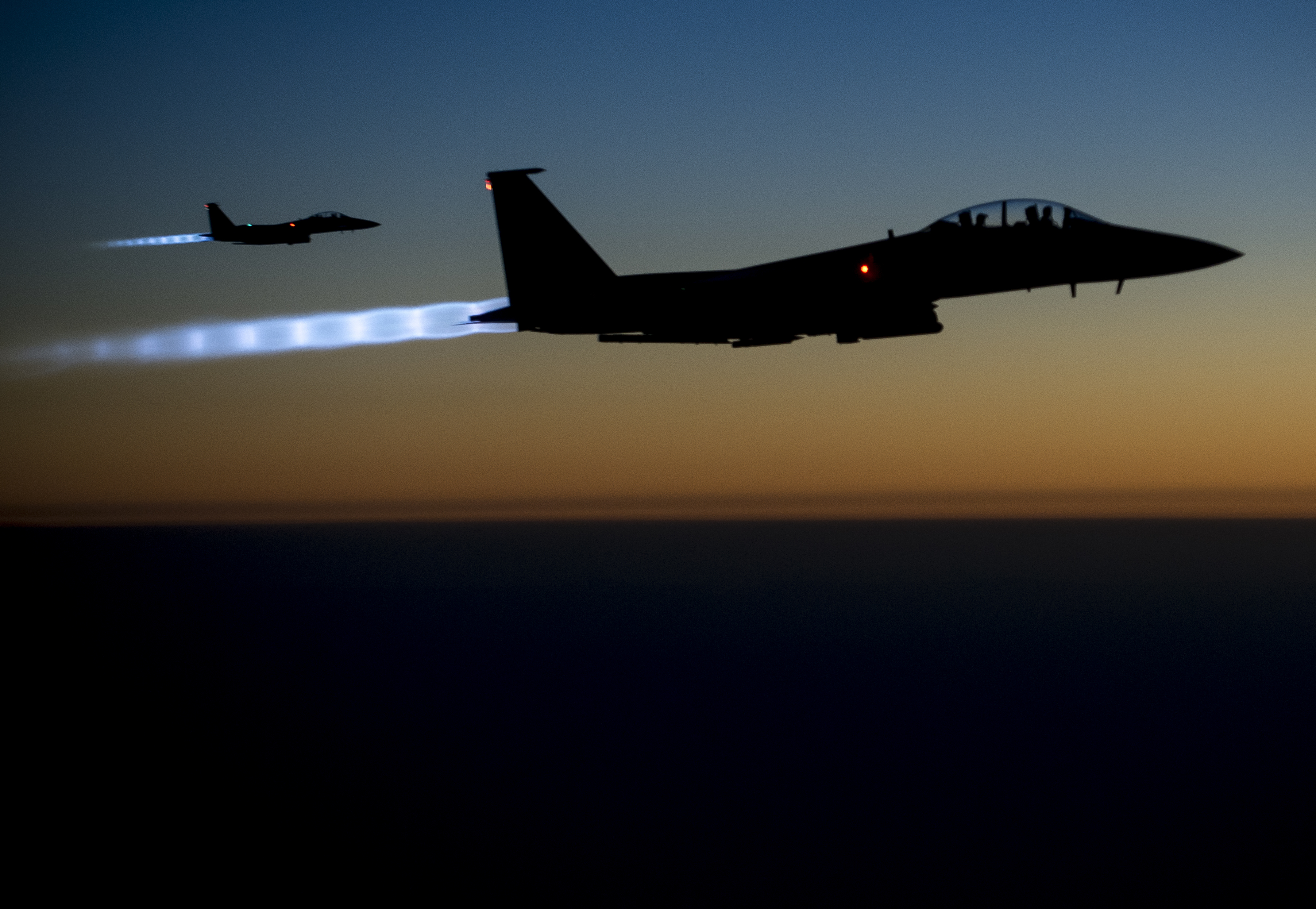 A pair of U.S. Air Force F-15E Strike Eagles fly over northern Iraq early in the morning of Sept. 23, 2014, after conducting airstrikes in Syria. These aircraft were part of a large coalition strike package that was the first to strike ISIL targets in Syria. (U.S. Air Force photo by Senior Airman Matthew Bruch/Released)